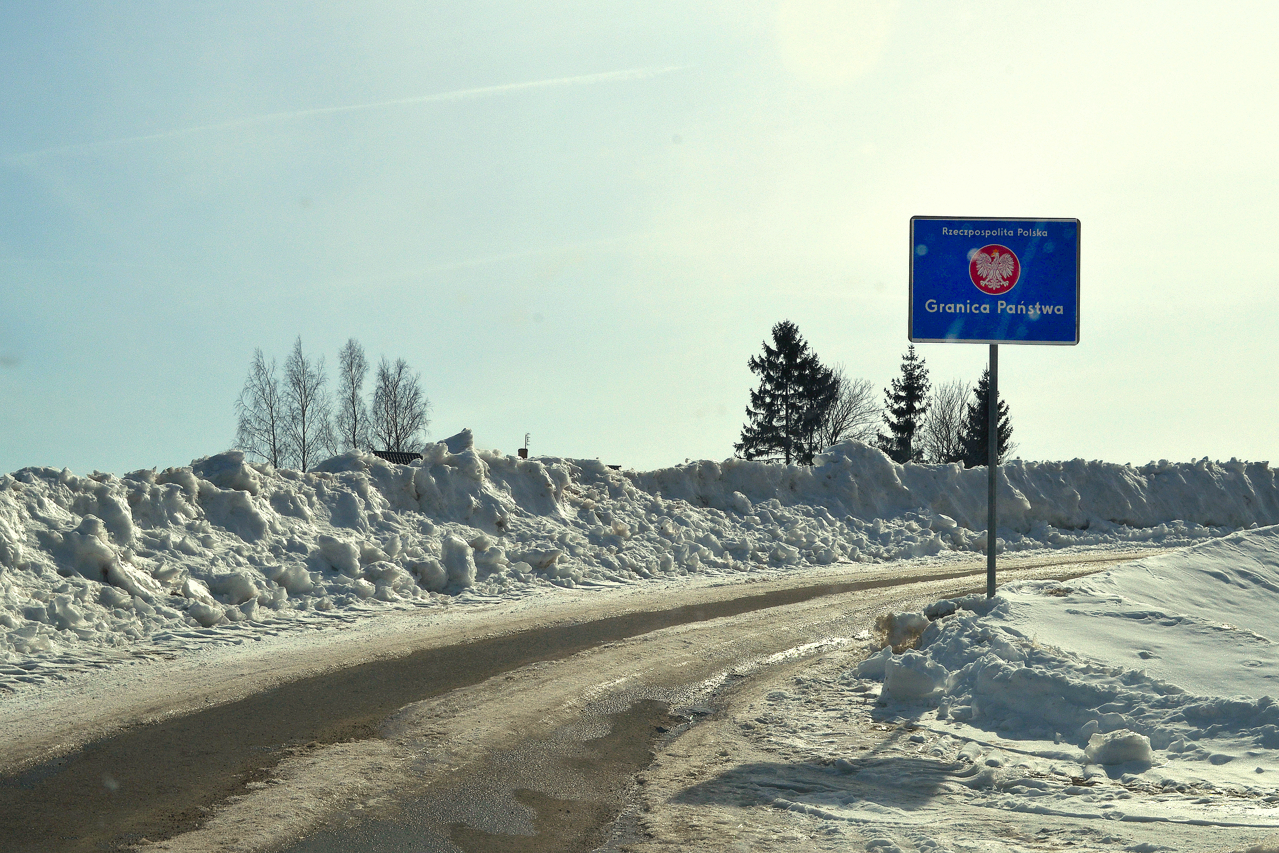 A border line Lithuania - Poland